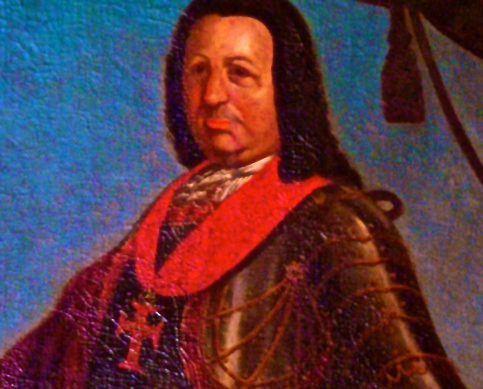 GF Conde Bobadela